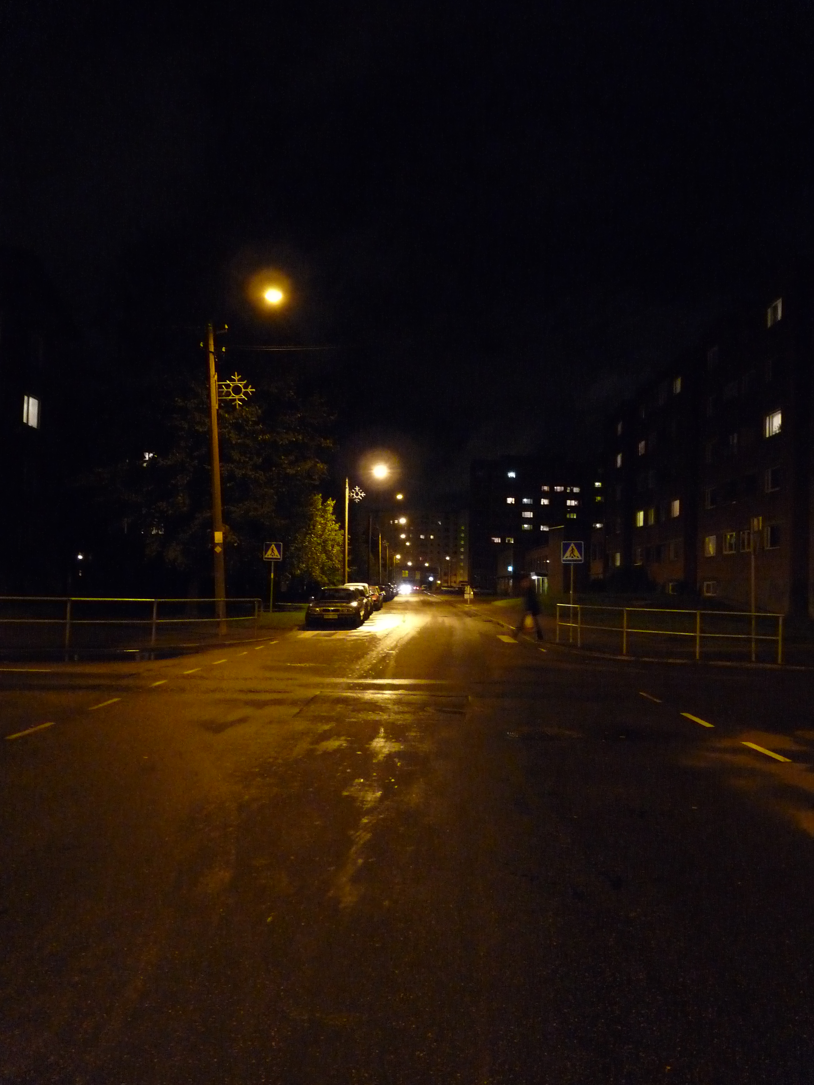 Madala street in Tallinn, Estonia